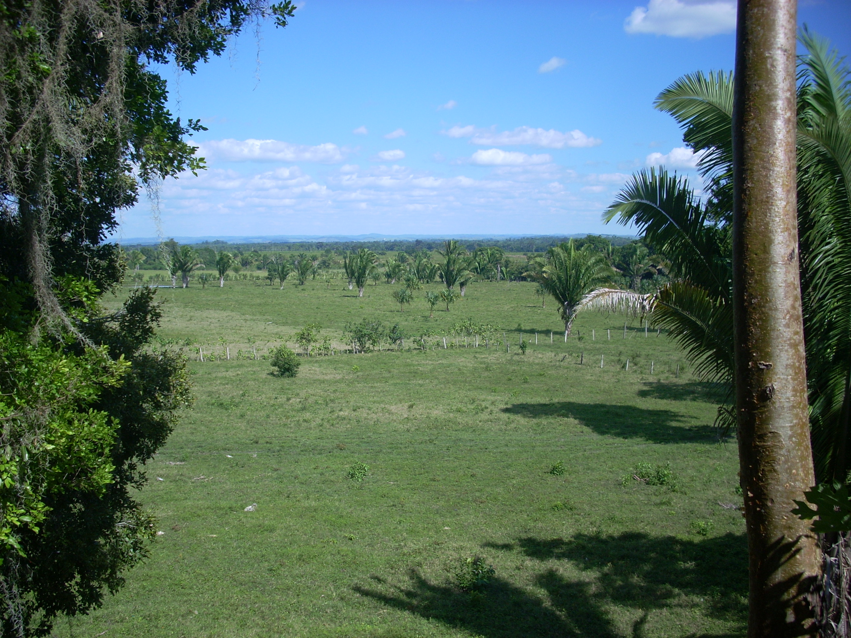 Petén wet savanna, dotted with Corozo Palms. La Blanca, Peten, Guatemala.